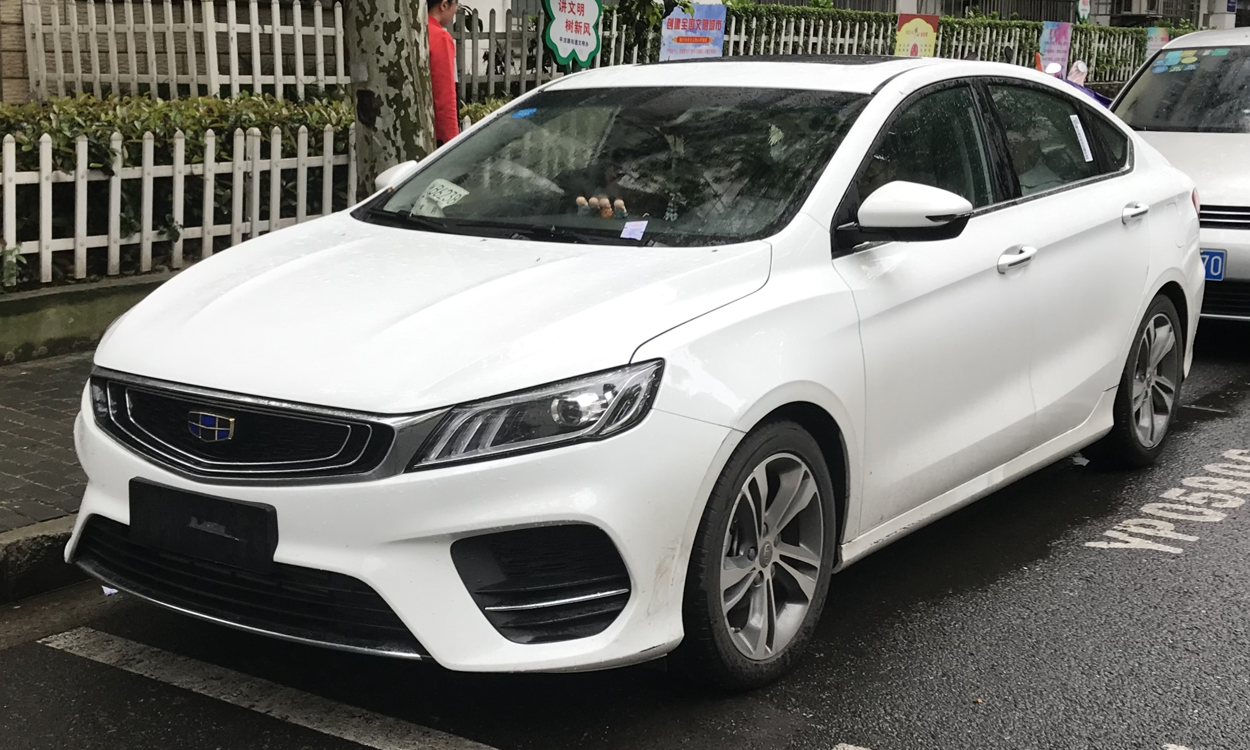 Geely Binrui front